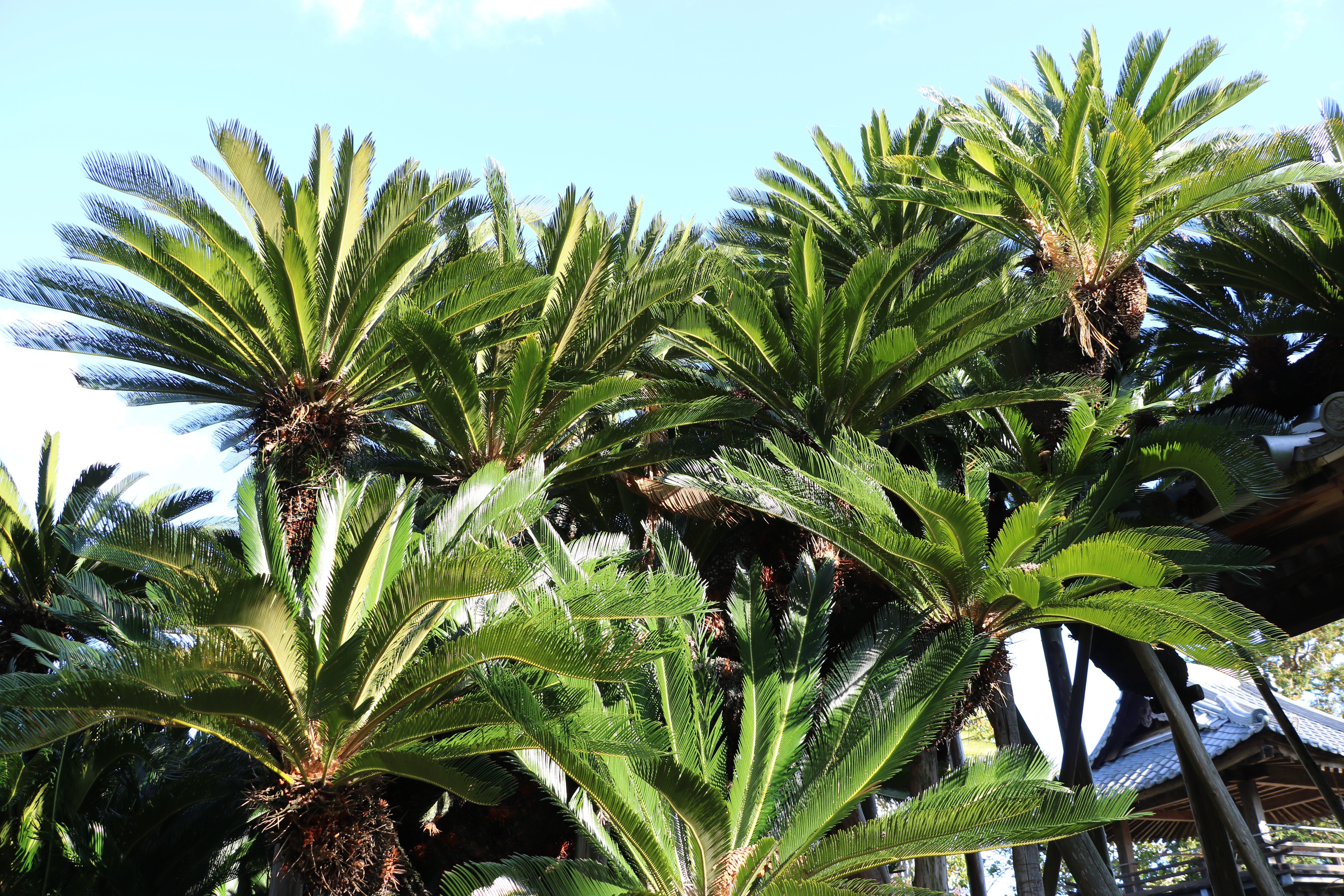 Nomanji Temple Cycad